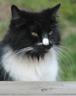 A black and White Female Domestic Longhair Feral Cat.. Photo was taken by myself